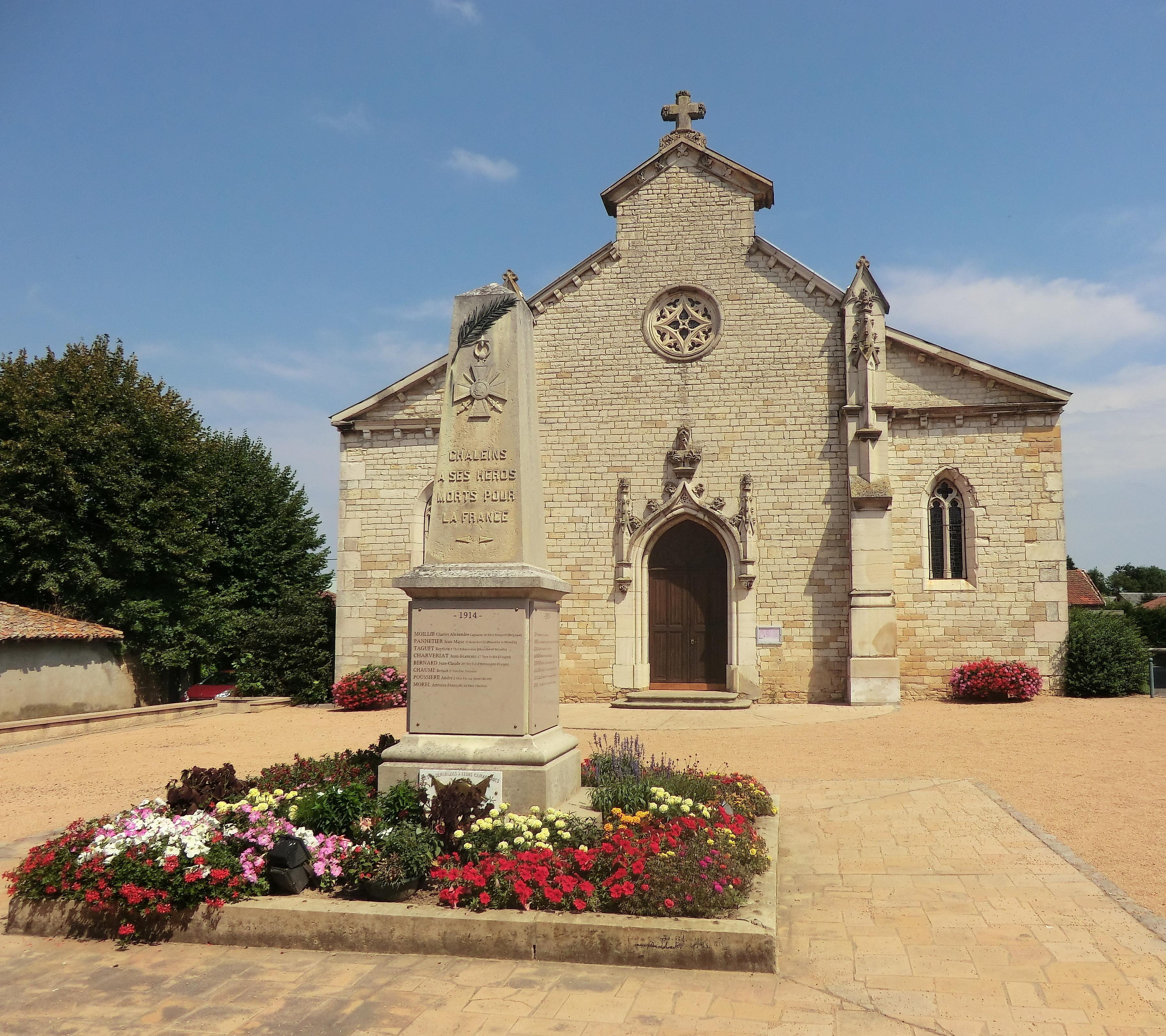 Image of Chaleins.